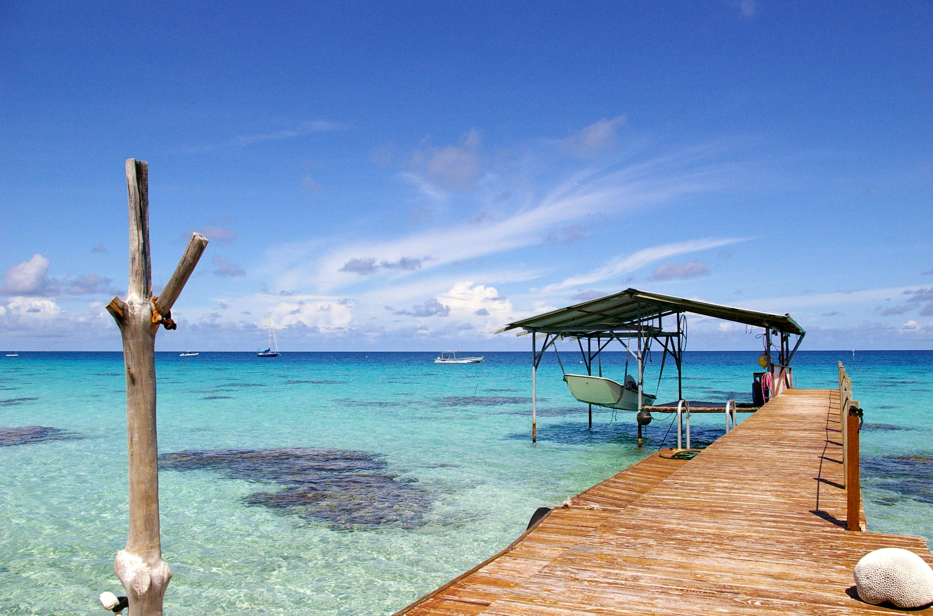 Fakarava inner lagoon taken from a pontoon near the village of Rotoava (The Tuamotus, French Polynesia)